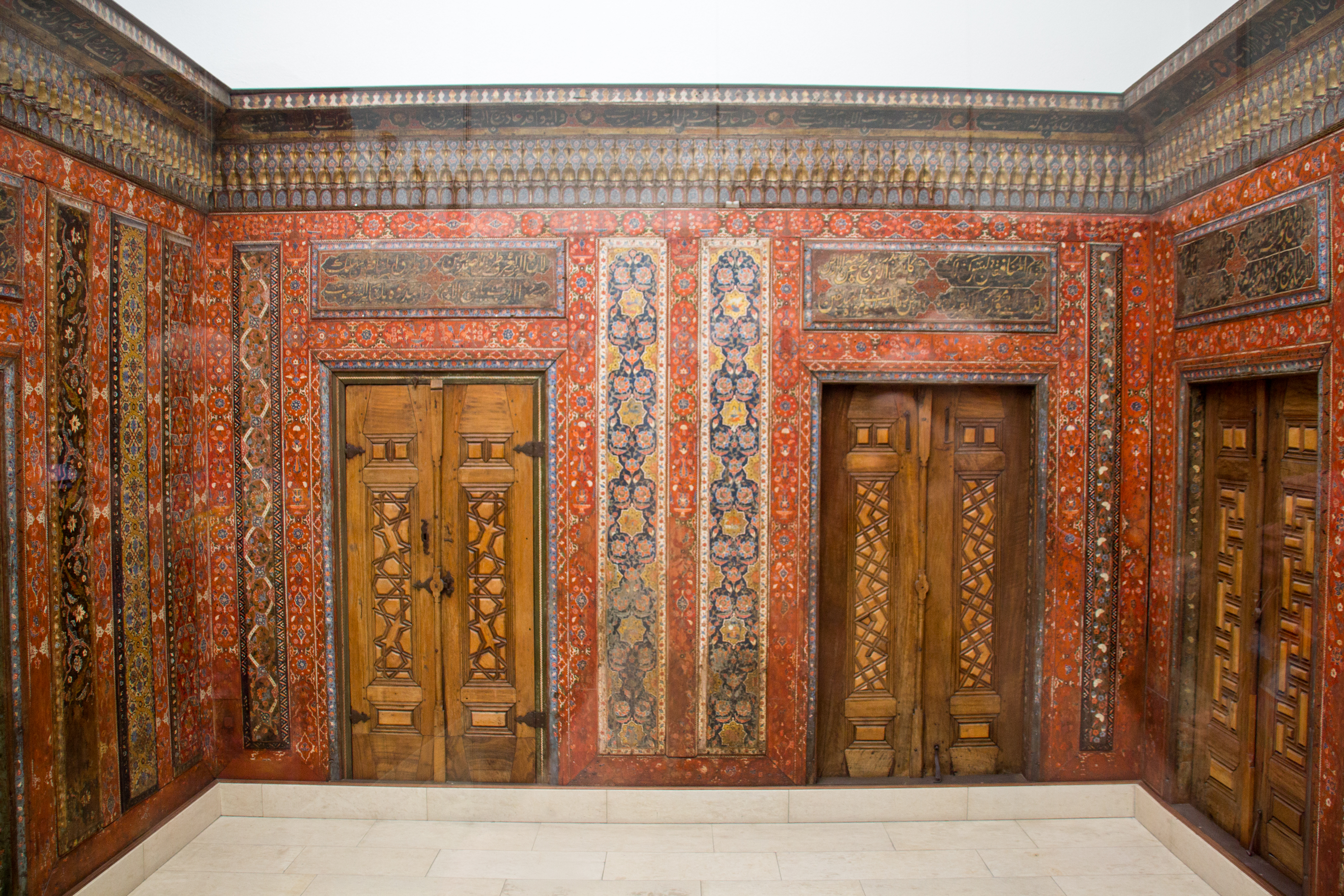 Pergamon Museum, Berlin, Germany. The Aleppo Room